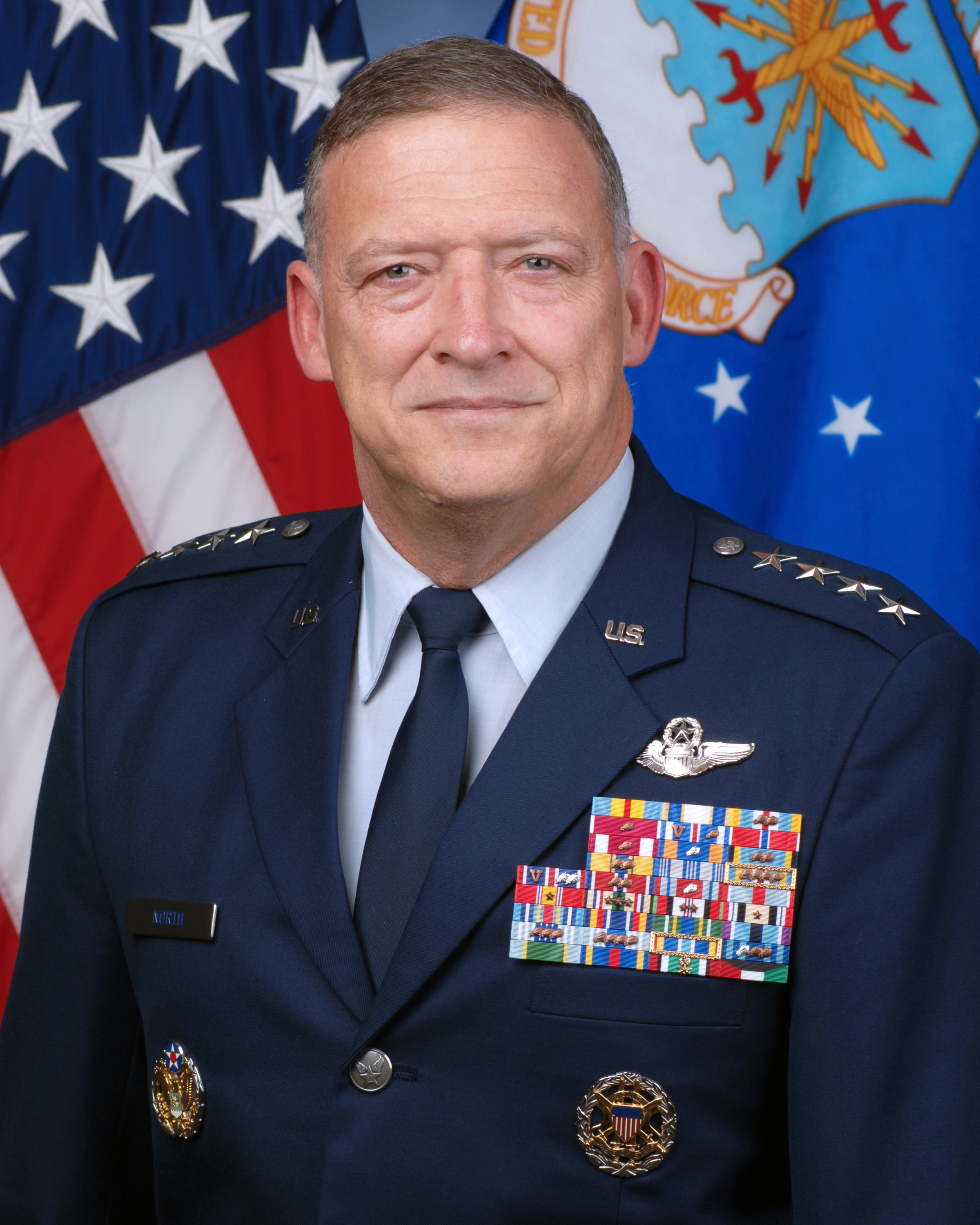 General Gary L. North, USAFCommander, Pacific Air Forces (PACAF), Air Component Commander for U.S. Pacific Command, and Executive Director, Pacific Air Combat Operations Staff